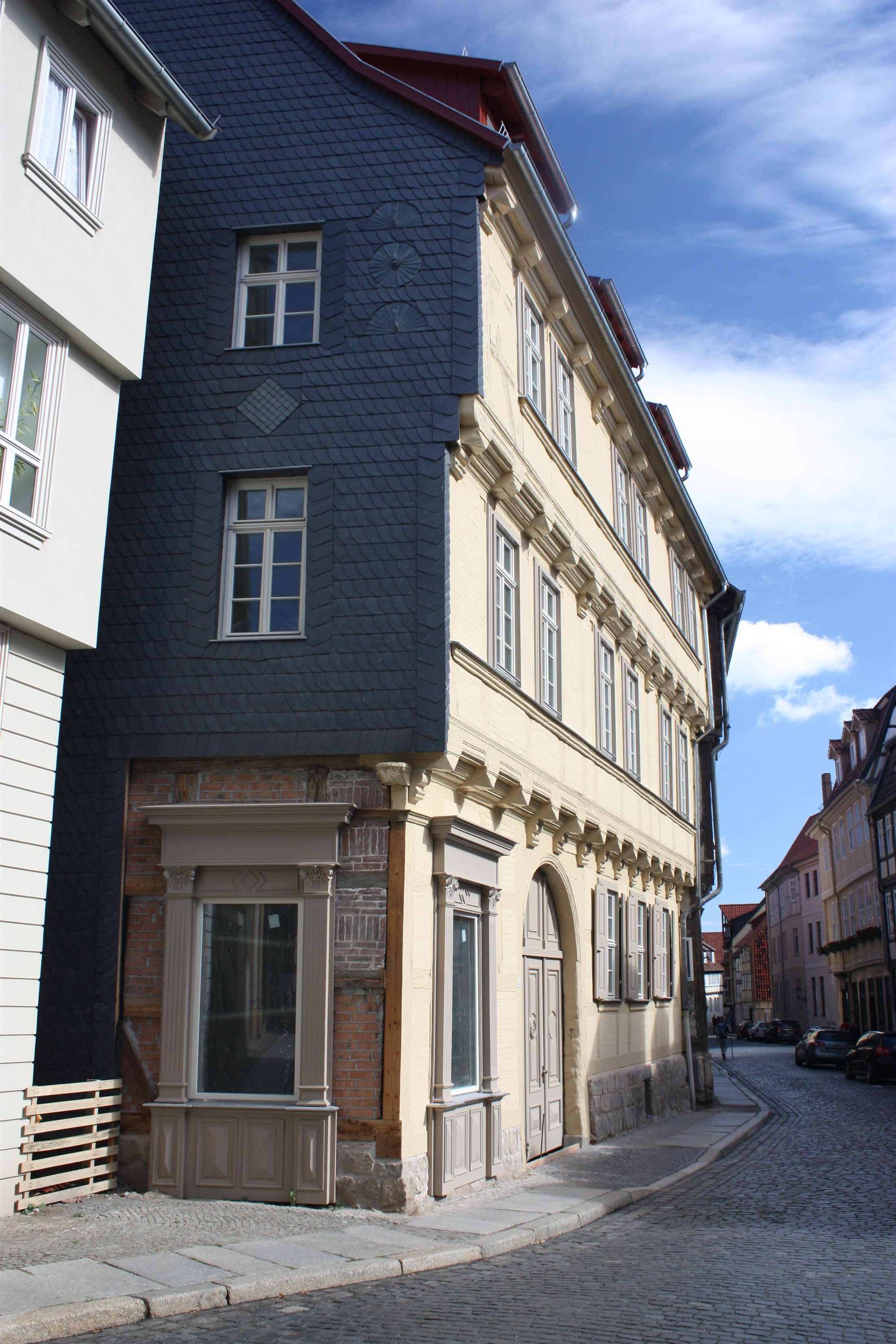 This is a photograph of an architectural monument.It is on the list of cultural monuments of Quedlinburg Hohe Straße 24